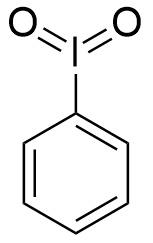 Iodylbenzene structural formula